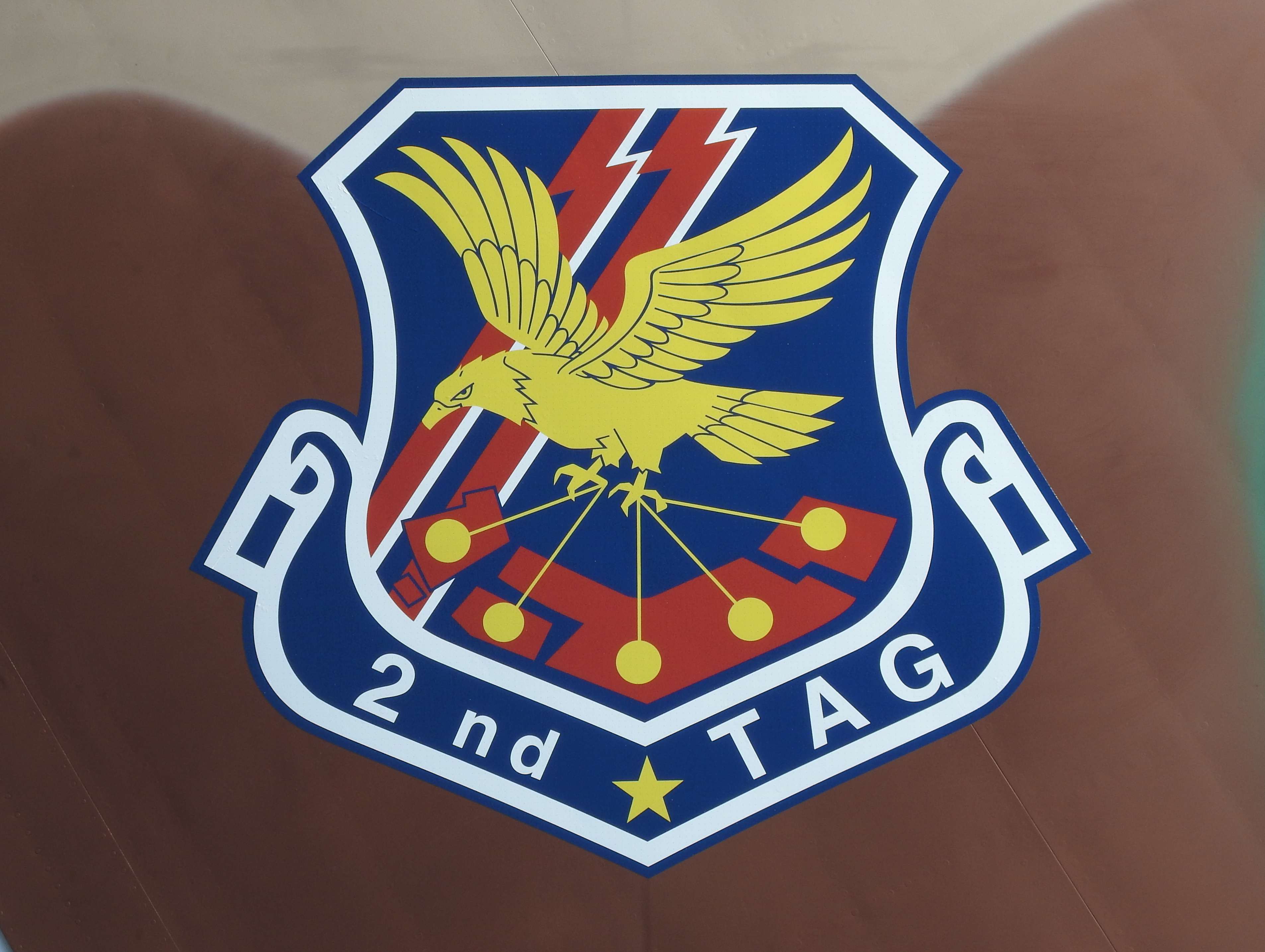 The tail marking on Kawasaki C-1 08-1030 at the 2016 Iruma Air Show